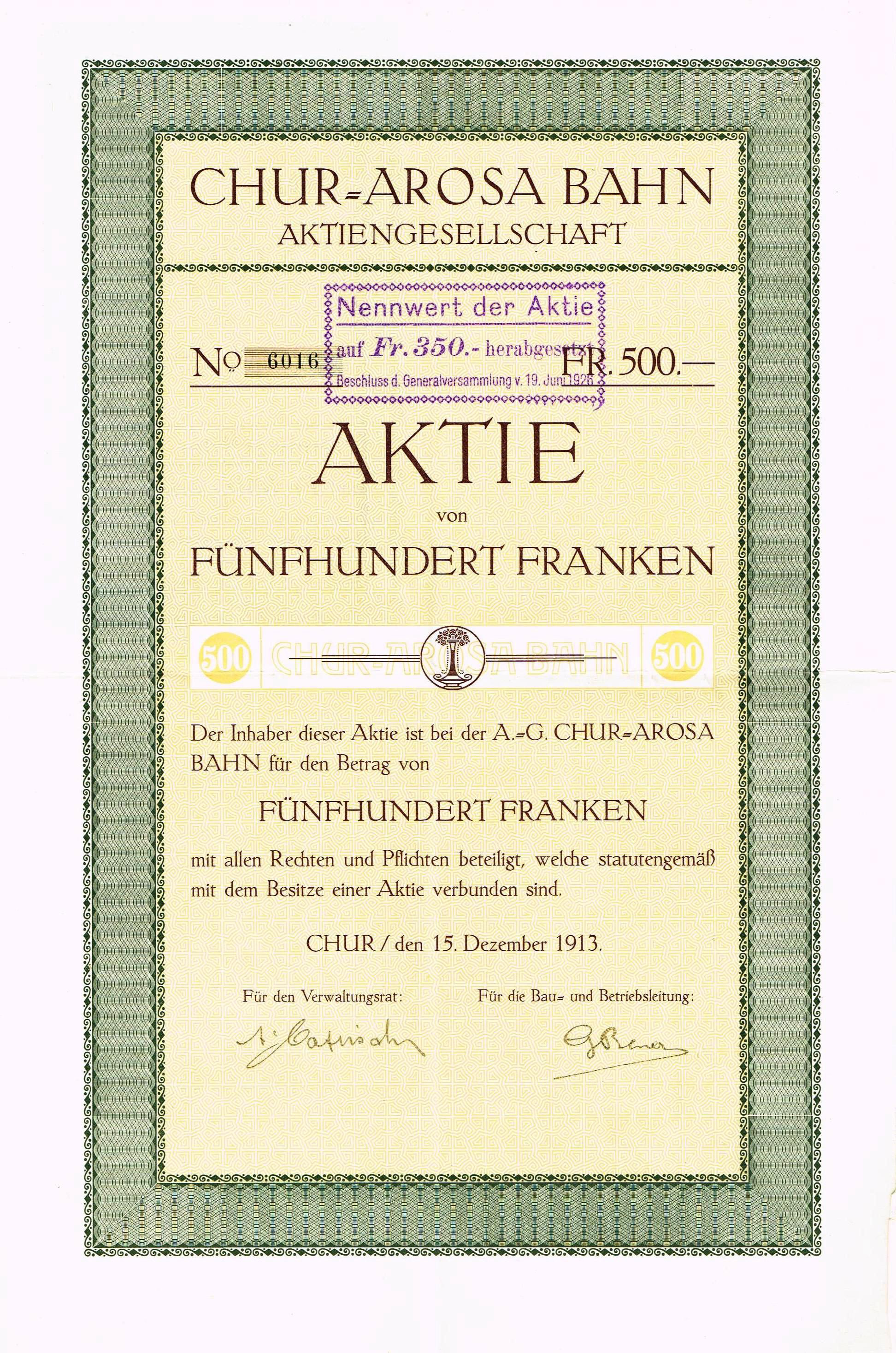 Share of the Chur-Arosa Bahn AG, issued 15. December 1913